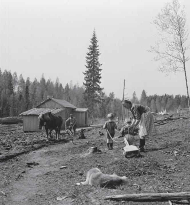 Finnish Karelian family of Alpo Rautia, evacuated from Karelia as a result of the Second World War, has been allocated land and is now building a homestead into the forest in Askola, Southern Finland. In many cases, including this family, the homestead was but a plot of forest. The house needed to be built and the fields had to be cleared by the family. Note the fir tree which has been left standing by the house.